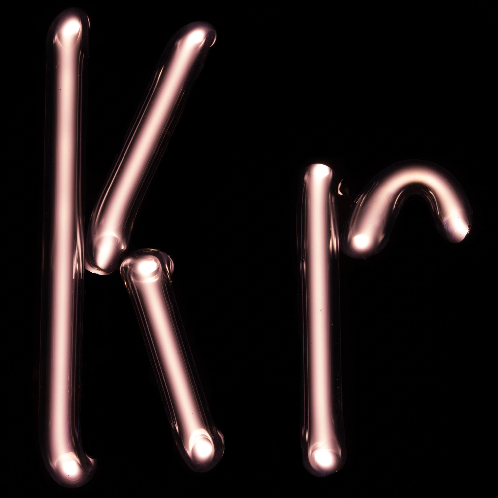 Image of a krypton filled discharge tube shaped like the element’s atomic symbol.